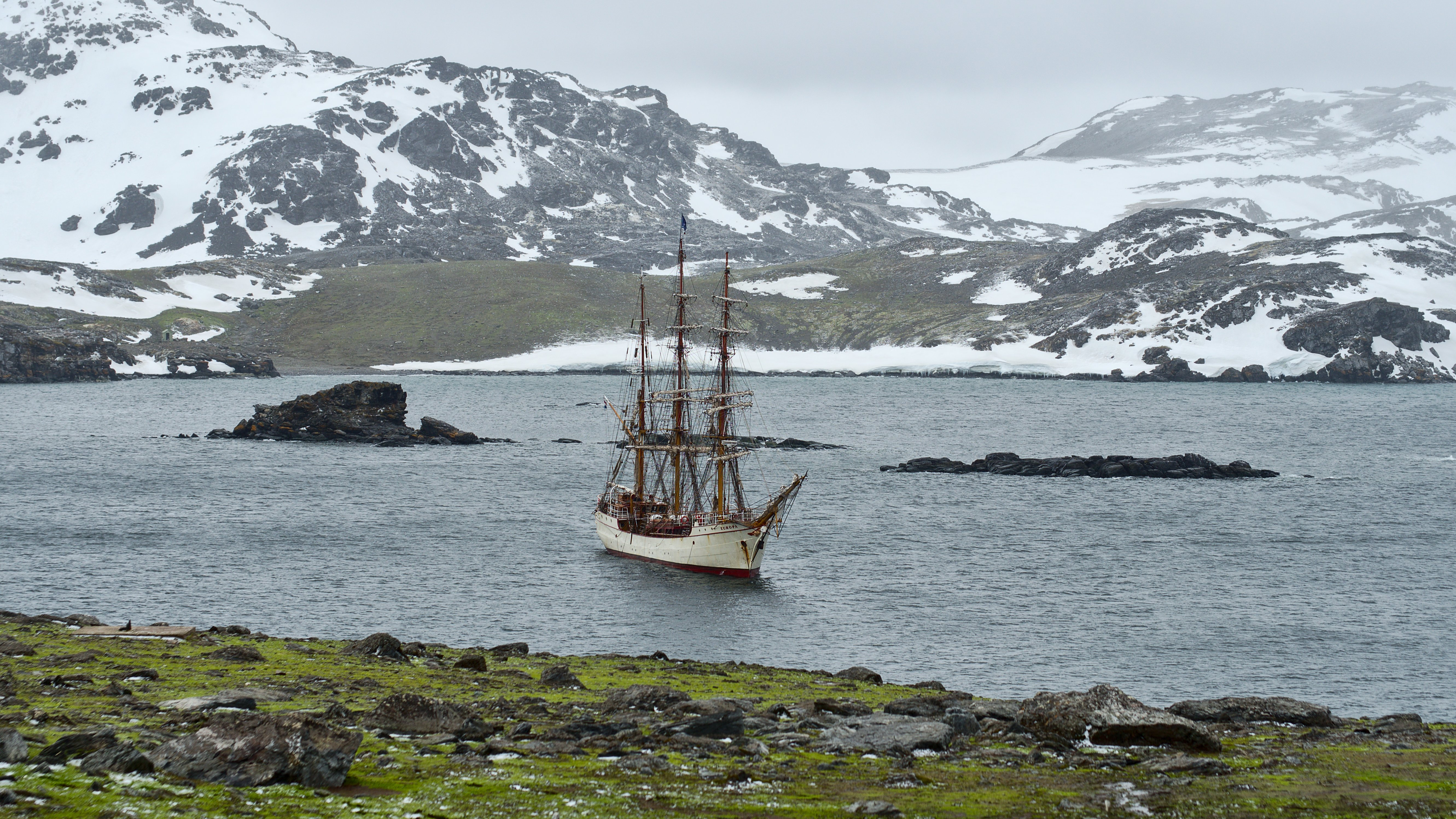 sailing the world's oceans (the way it should be)